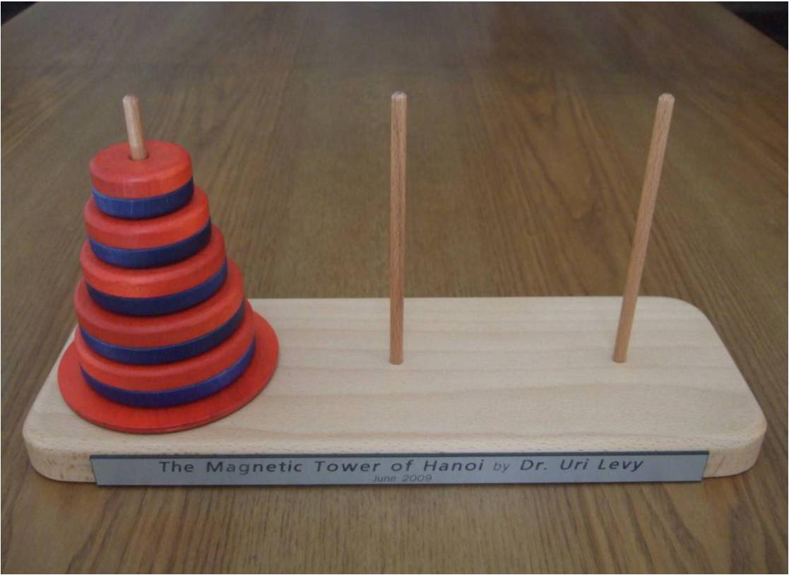 MToH five disk realization in JPEG - 64KB format